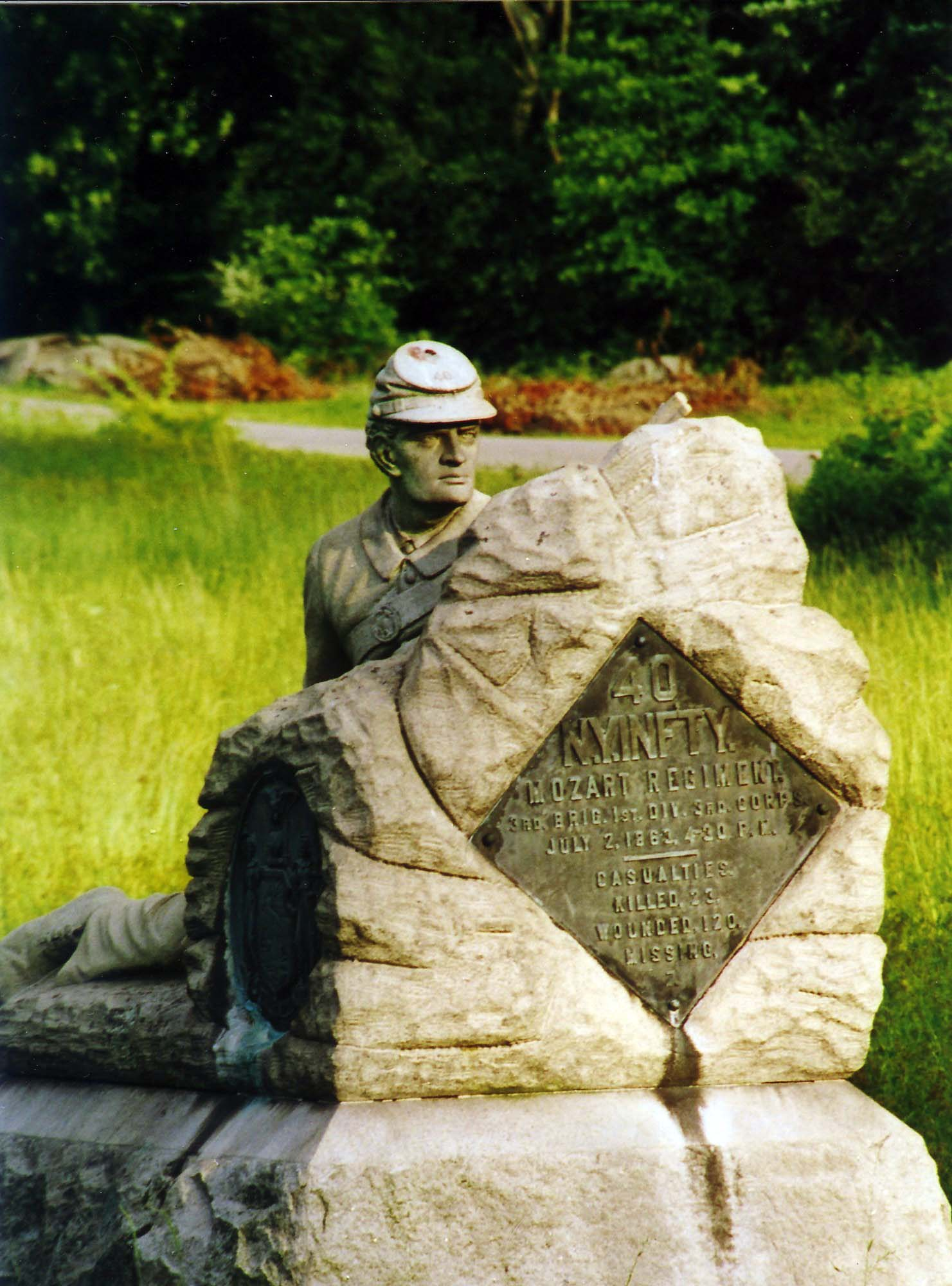 40th NY Infantry monument, (1888) Gettysburg Battlefield